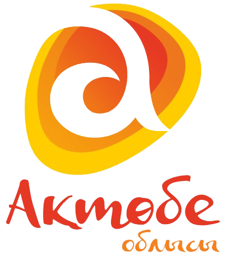 Coat of Arms of Aqtöbe Province